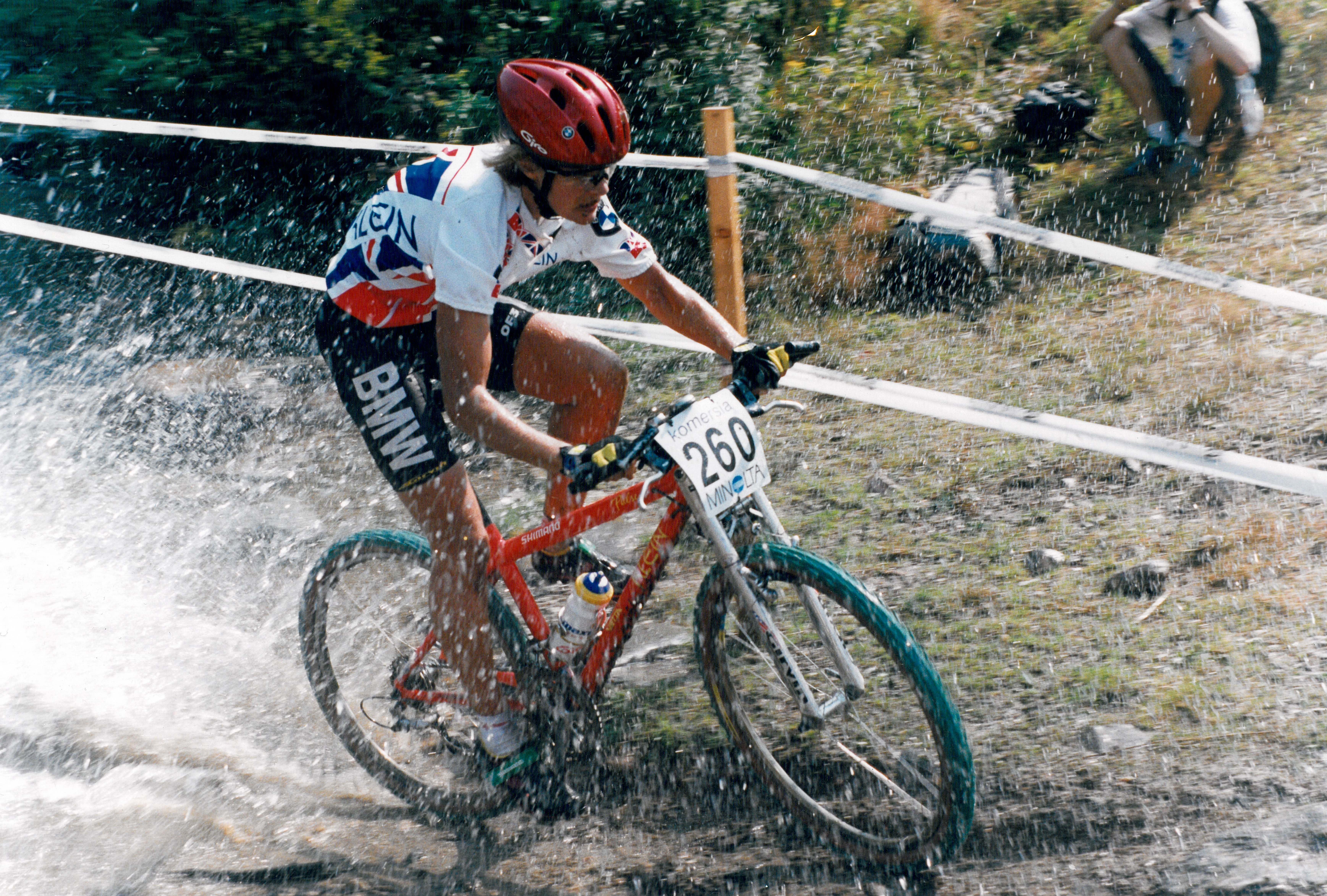 Scan of analogue photography winner of the European Championships in mountain bike, cross country women category, Spindleruv Mlyn 1995. Sken analogové fotografie vítězky Mistrovství Evropy horských kol v kategorii cross country ženy, Špindlerův Mlýn 1995.